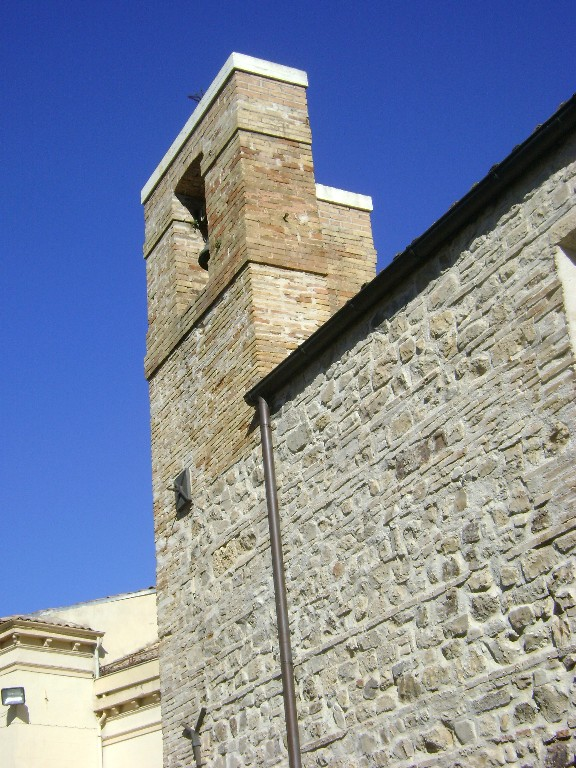 The bell tower of the church of St. Pietro to Atessa